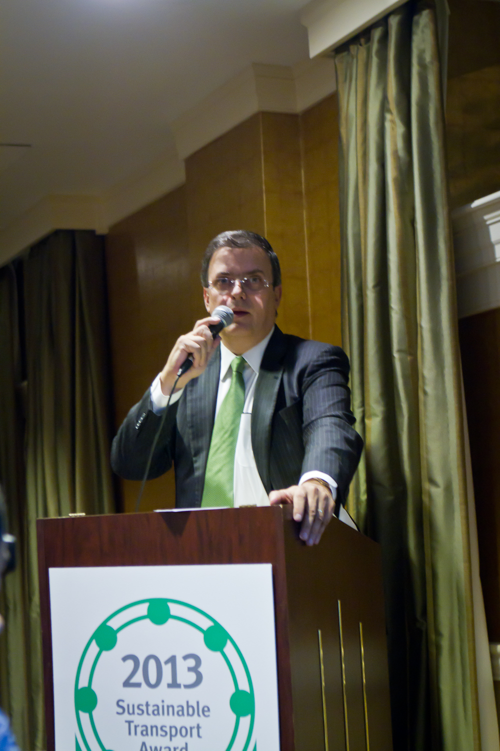 The Mayor of Mexico City accepts the STA Award